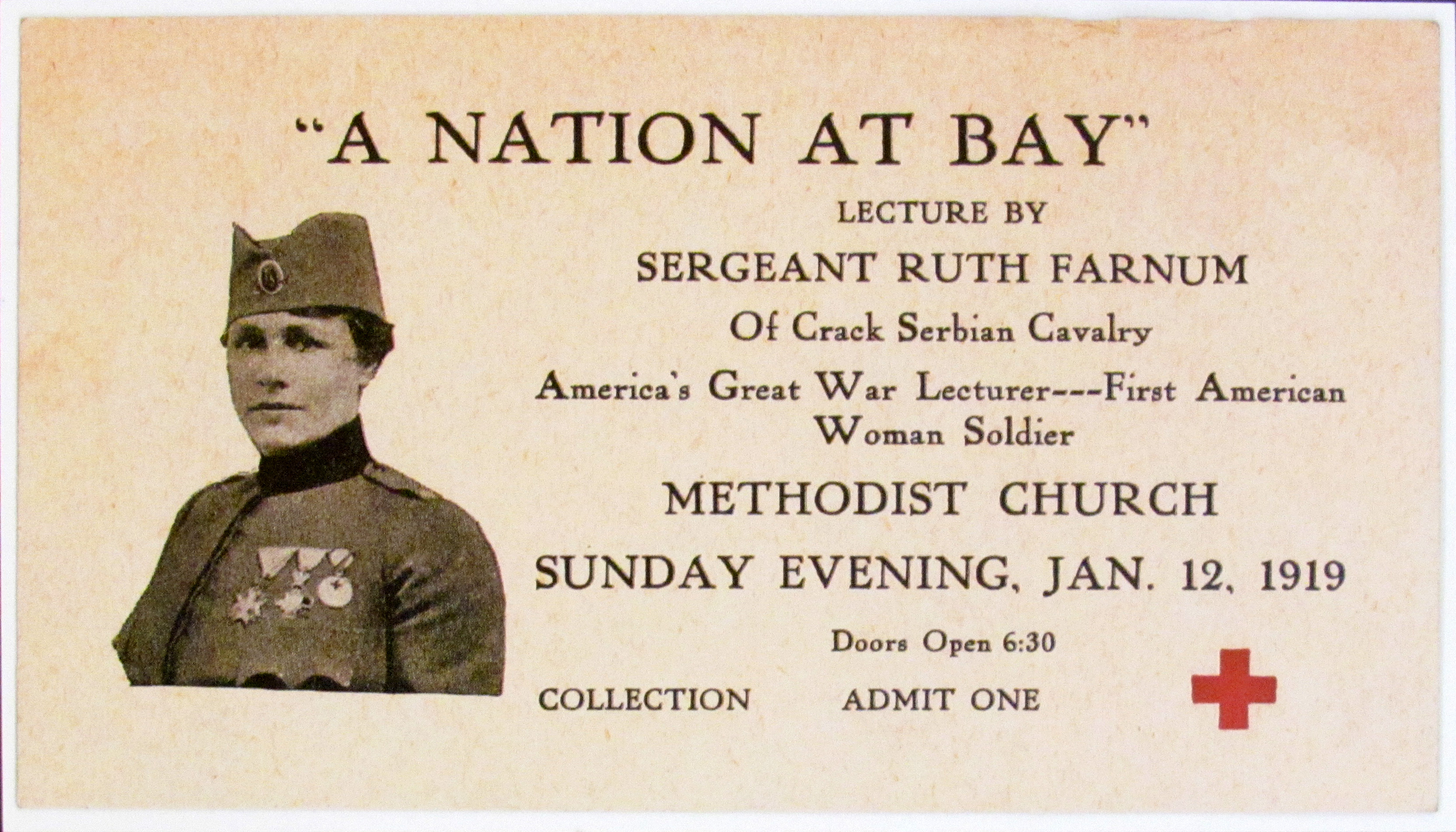 Lecture by Ruth Stanley Farnam, 1919